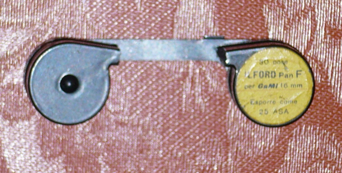 Gami 16 cassette